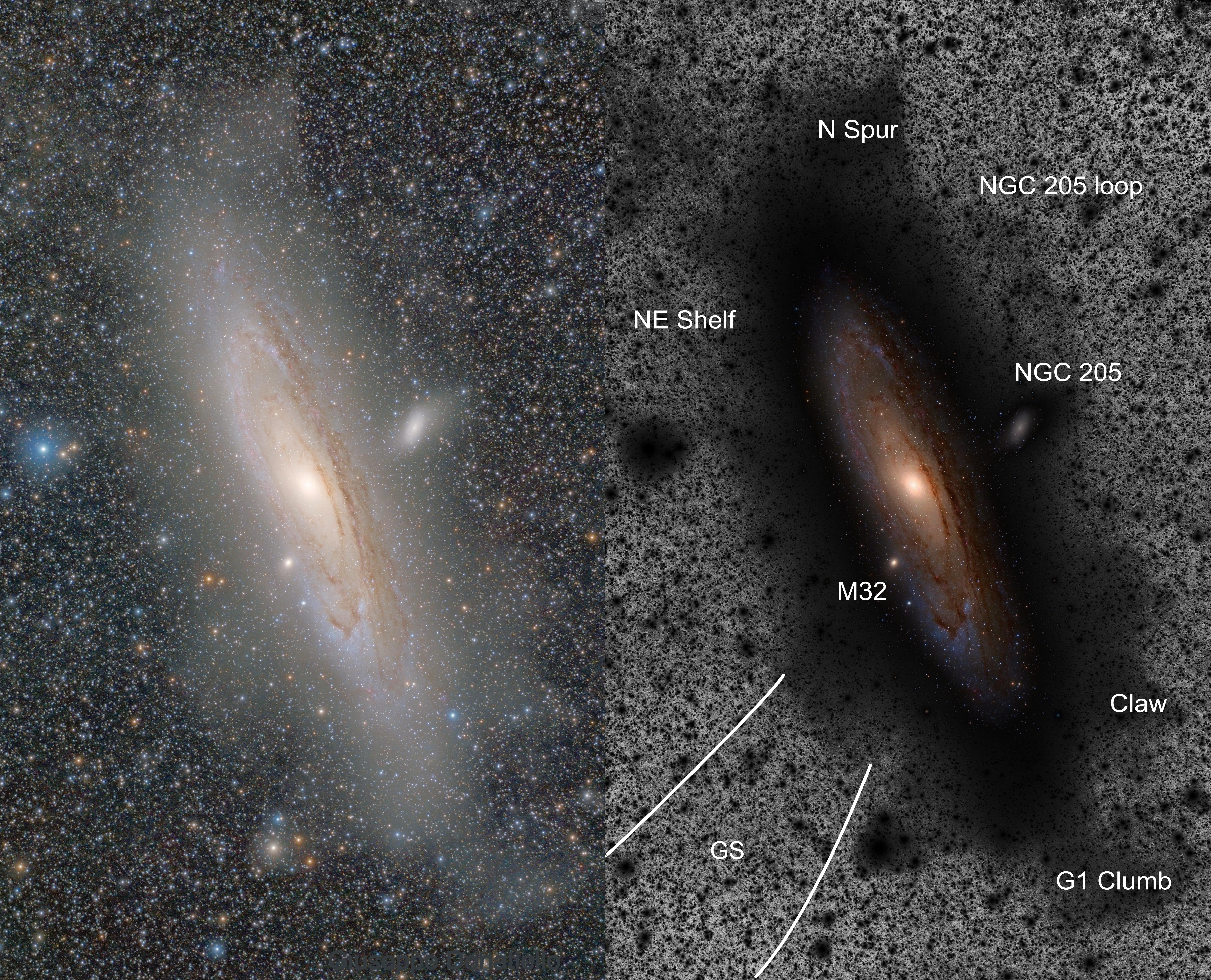 Andromeda [Ultra Deep 2019] This image offers a good overview of the main structures on the disc and the external halo of Andromeda (M31). The disc appears quite regular and there is an abundant presence of young stars, gases and abundant dusts. The bulge is dominated by an older population. The external halo presents various irregularities and thickenings that we can consider as vestiges of dwarf galaxies incorporated progressively by the greater galaxy, as foreseen by the growth models. M31 is thought to have assimilated a few hundred small galaxies or globular clusters. This process is still ongoing. According to Ferguson et al. (2002), the names attributed to the various substructures, unknown to most, they are reported in the negative image with disc color inset. More about: Evidence For Stellar Substructure In the Halo and Outer Disk of M31